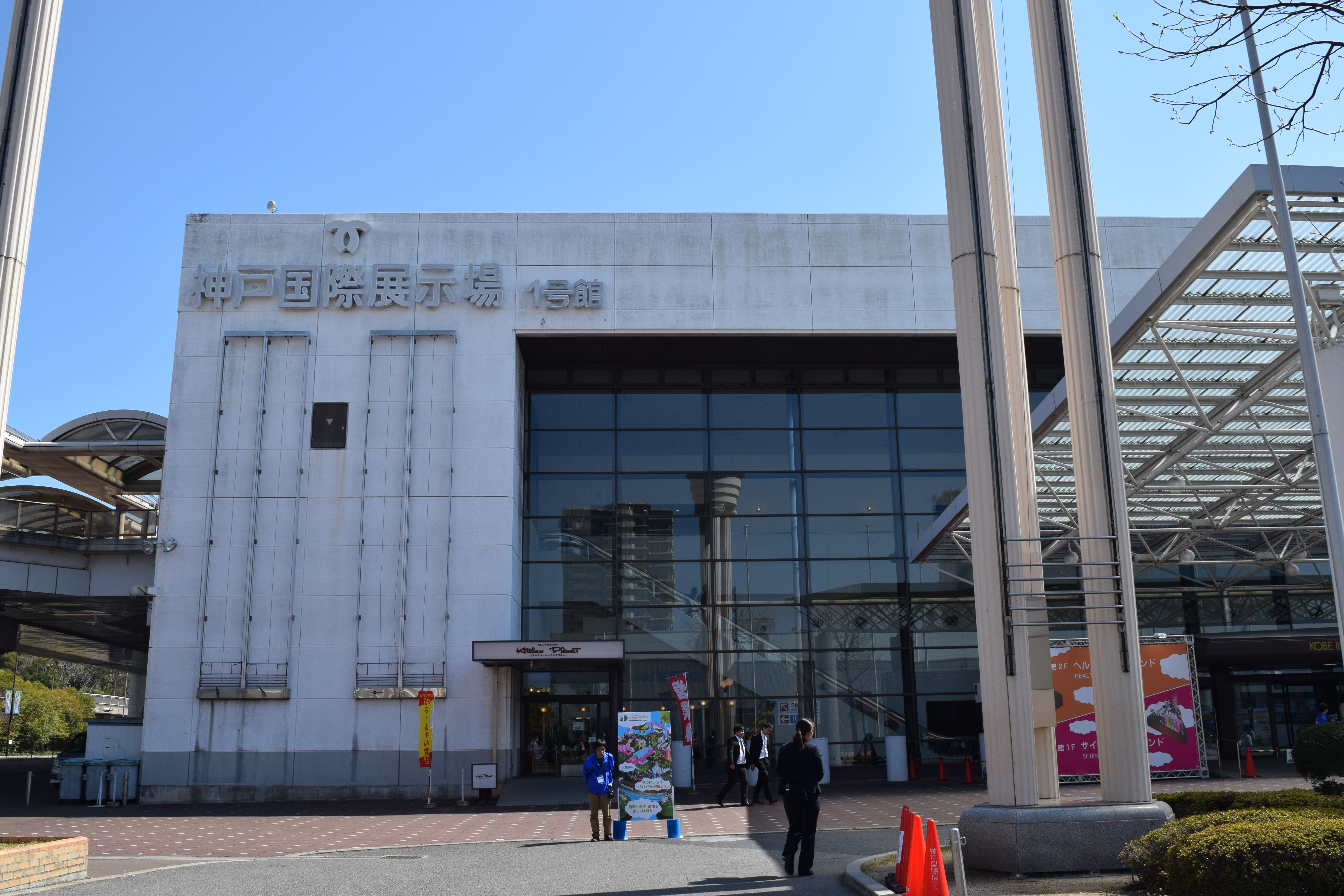 Kobe International Exhibition Hall Bldg.1.